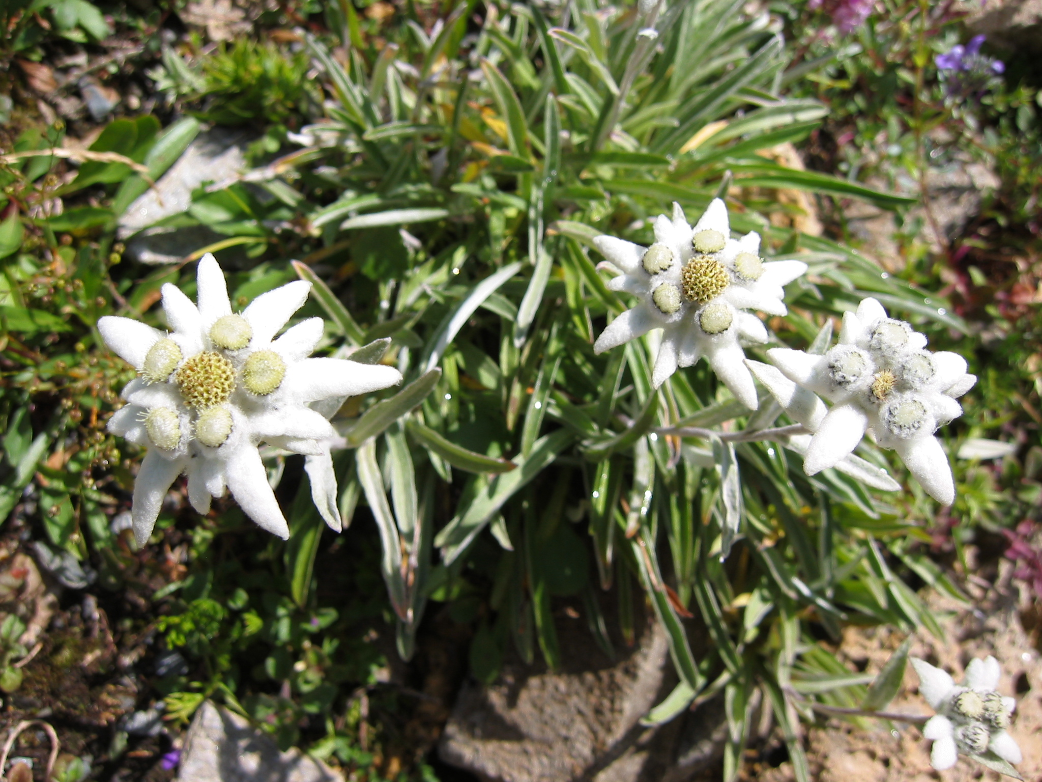 Leontopodium alpinum